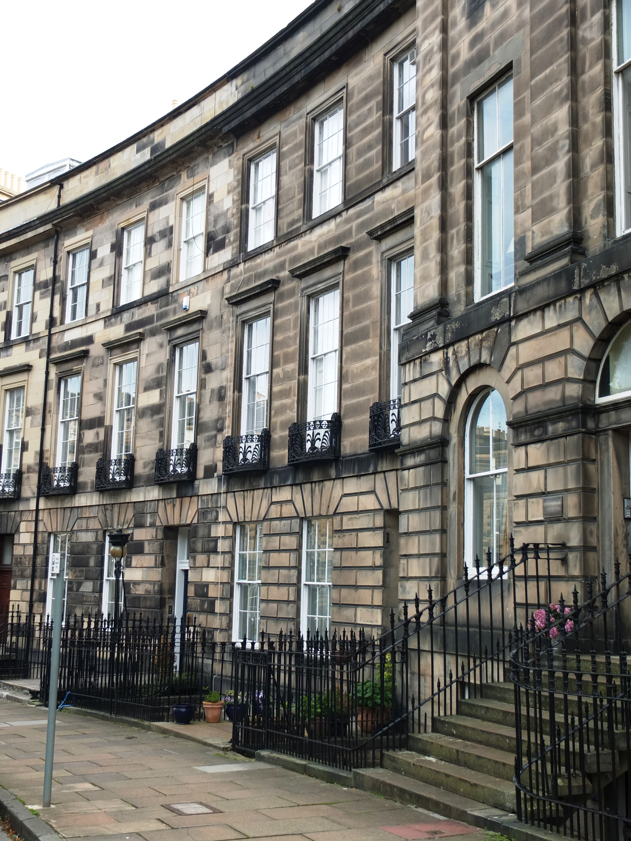 21-25A Ainslie Place